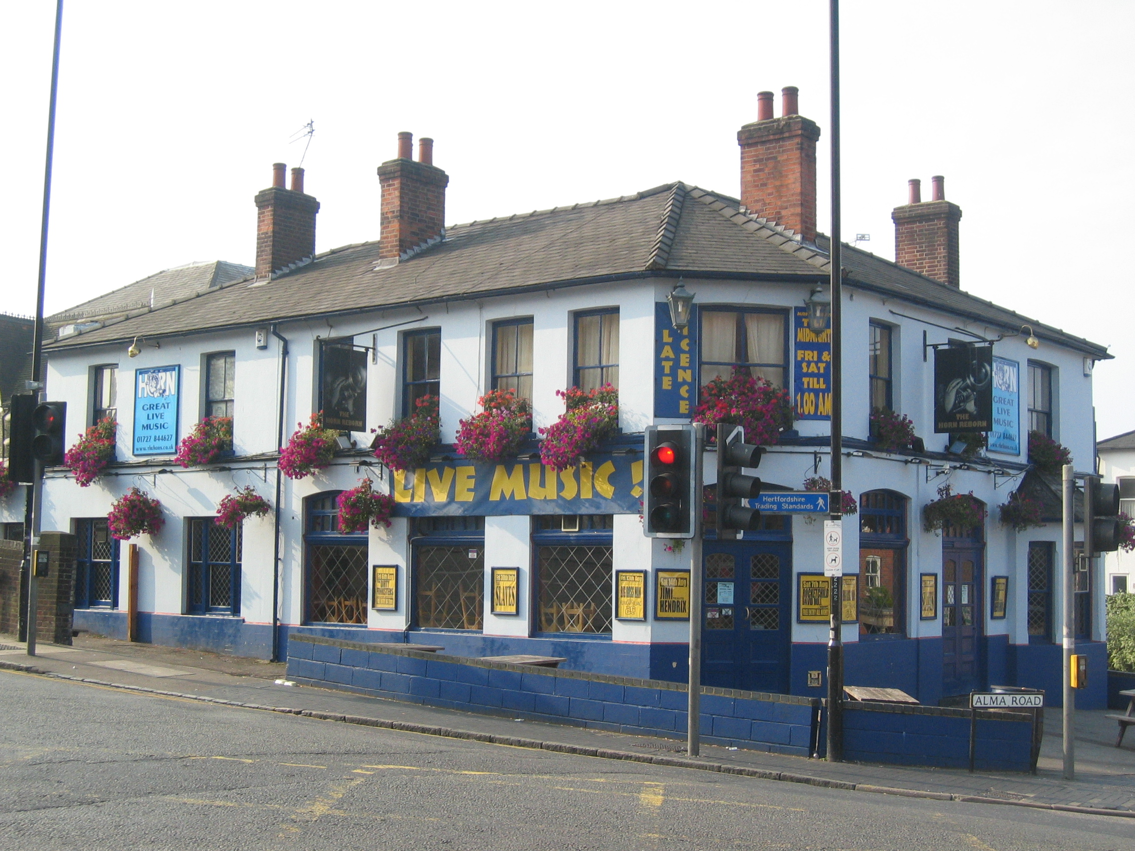 The Horn Reborn, corner of Victoria Street and Alma Road, St Albans, Hertfordshire, England, UK